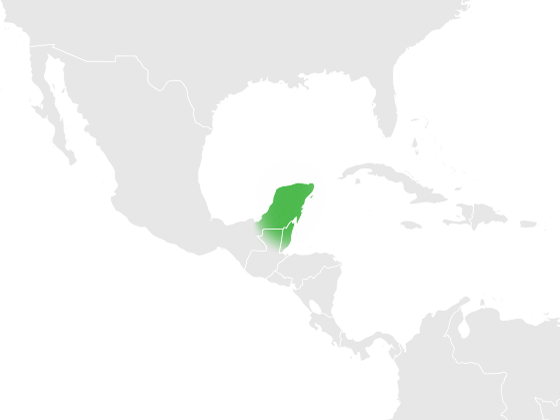 A map showing the location and extent of the Yucatan Peninsula